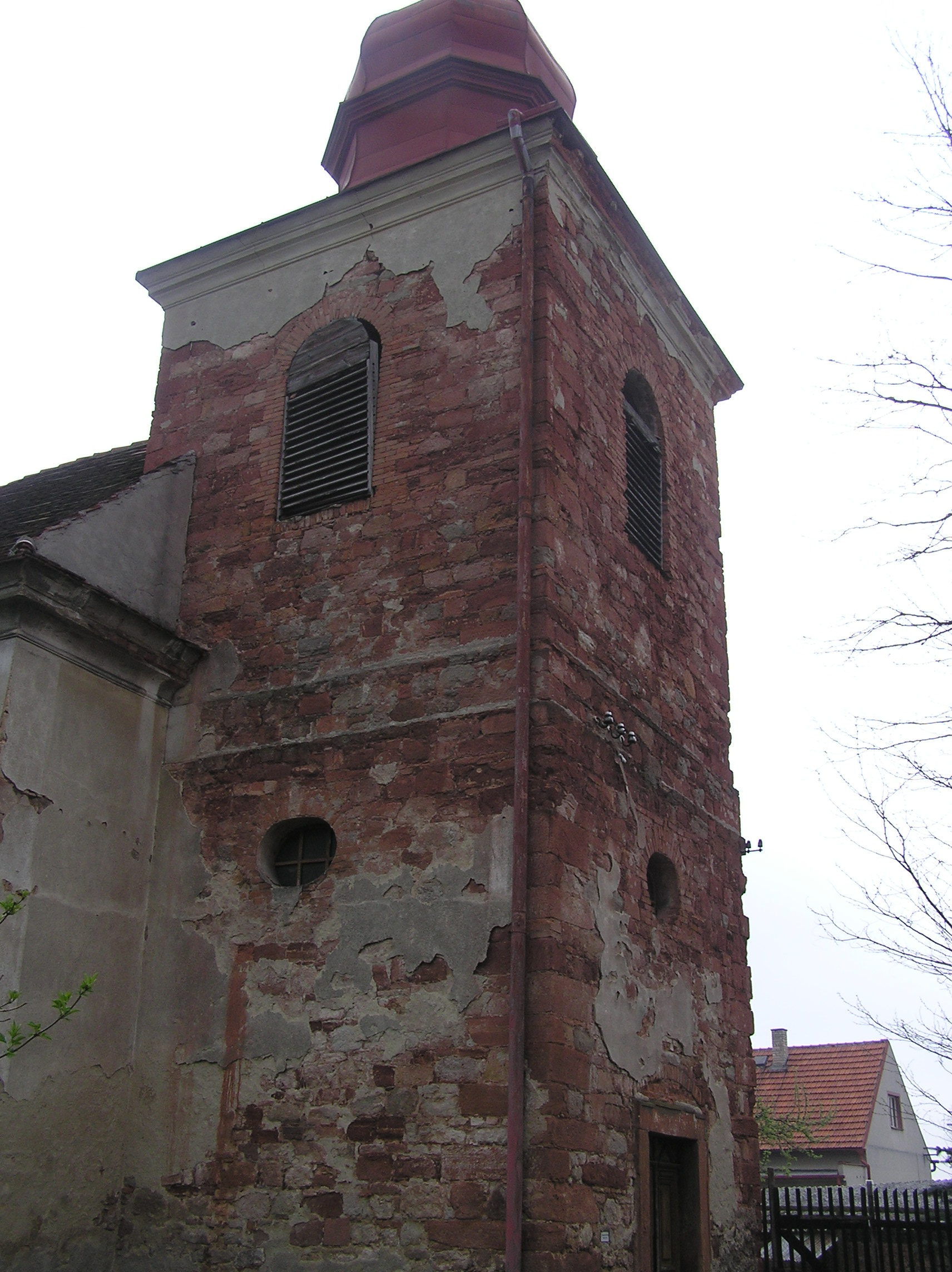 Tower of the church in Strojetice